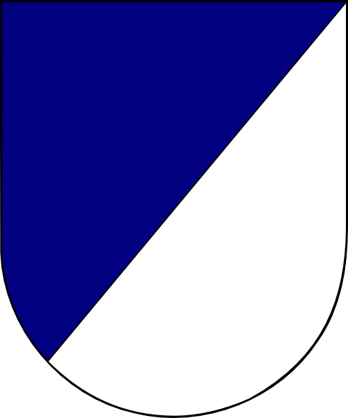 Coat of arms (shield only) of František de Paula Pištěk, auxiliary bishop of Prague (1824 - 1831), bishop of Tarnów, Poland (1831 - 1835/36), archbishop of Lviv, Ukraine (1835/36 - 1846). Based on description in BUBEN-POKORNÝ "Encyklopedie českých a moravských pomocných (světících) biskupů, 2014, p. 125.